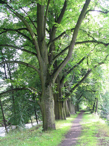 Tilia Avenue in Alej u náhonu